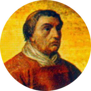 Portait of Pope Celestine IV in the Basilica of Saint Paul Outside the Walls, Rome